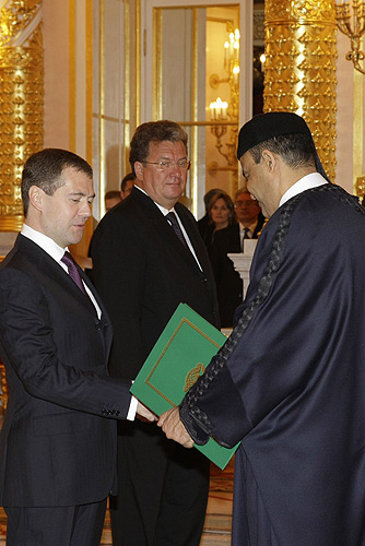 THE KREMLIN, MOSCOW. Presentation by foreign ambassadors of their letters of credence. Dmitry Medvedev receives a letter of credence from Libyan Ambassador Amir al-Arabi Ali Gharib.